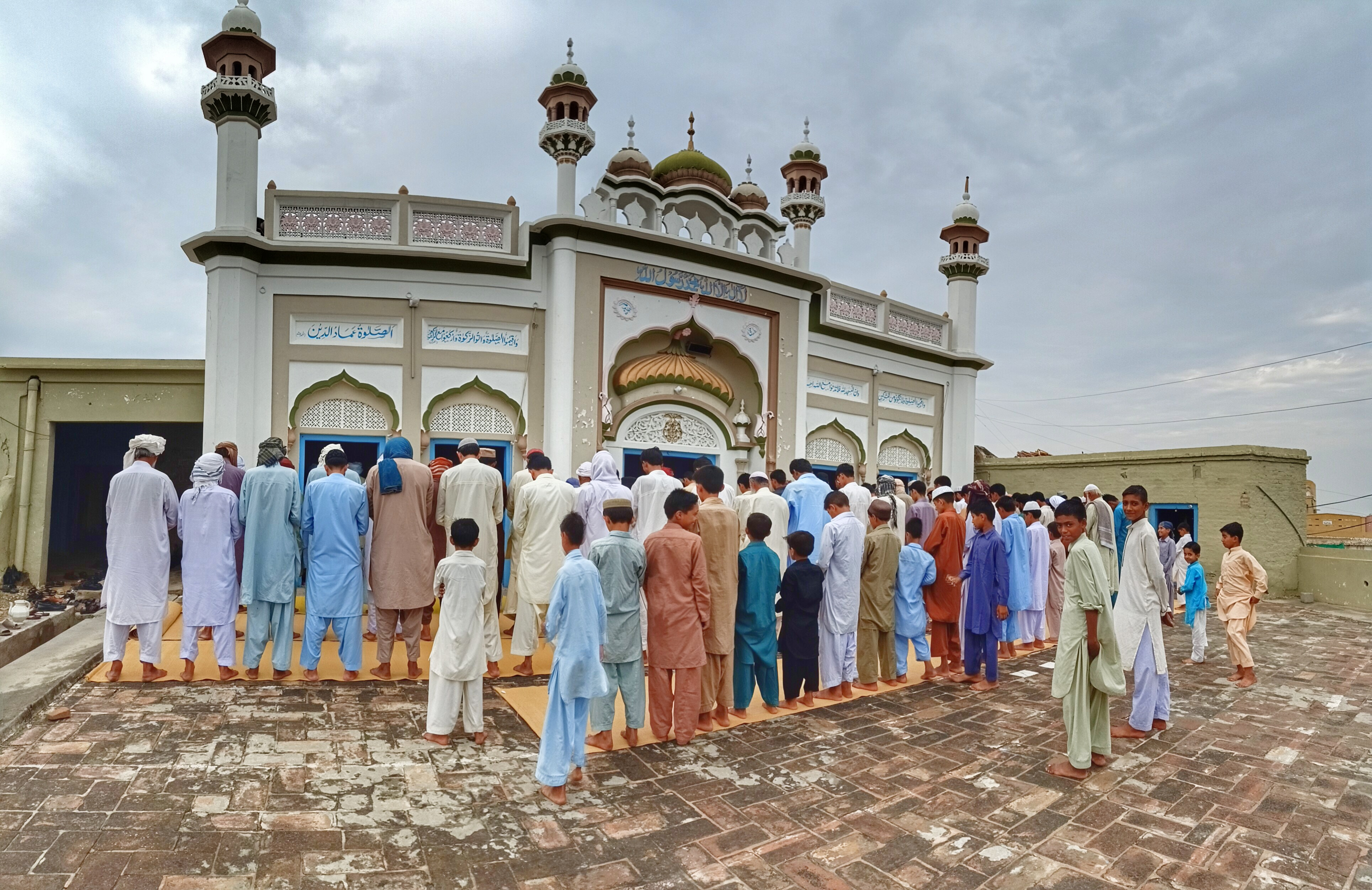 Photos of Thamewali in September 2019.